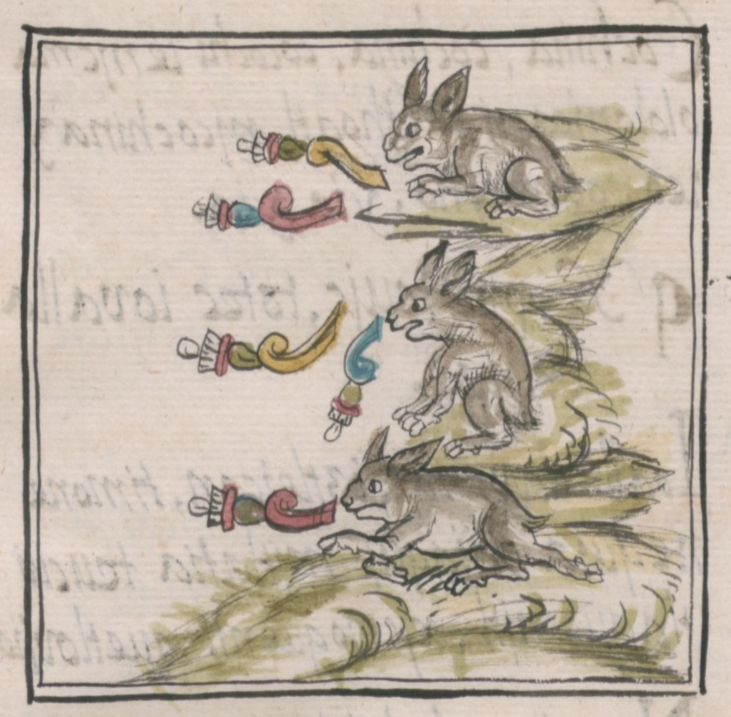 Centzon Tōtōchtin?